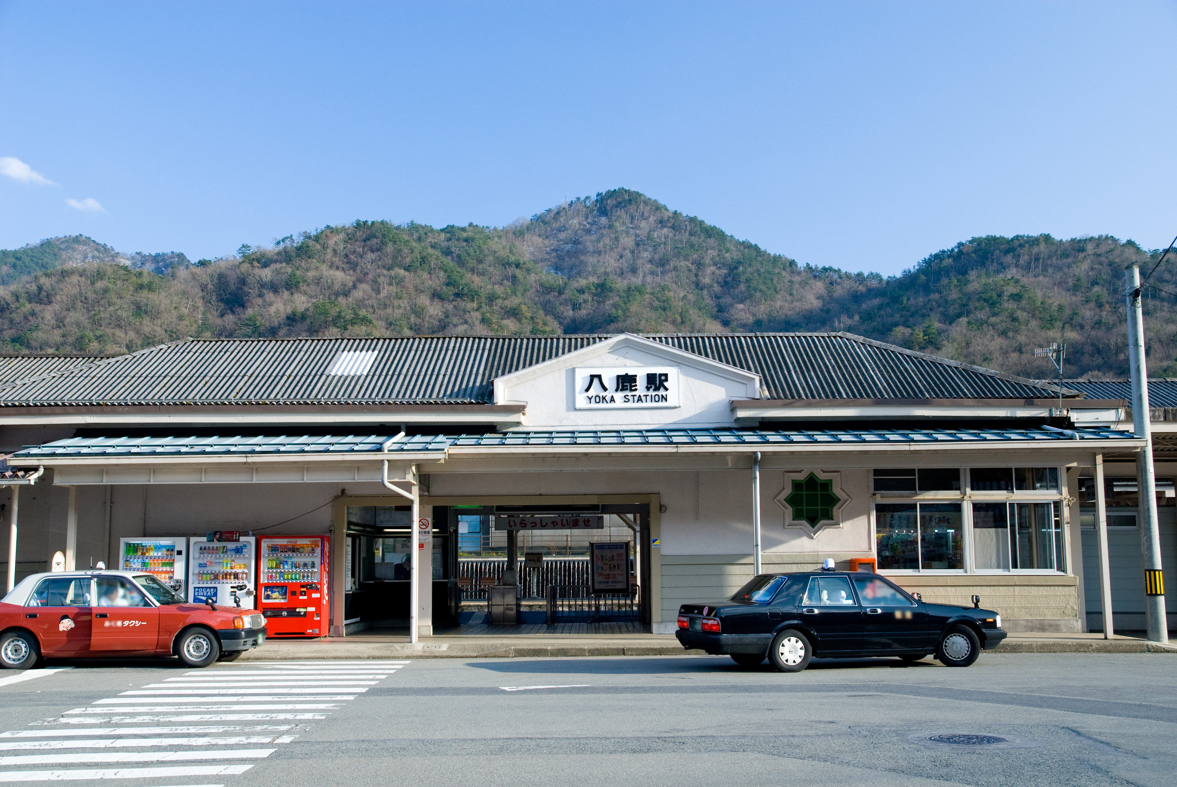 It is "Yōka Station" of JR West in Yabu city, Hyōgo Prefecture, Japan.